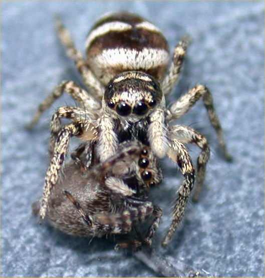 Salticus scenicus eating Sitticus pubescens